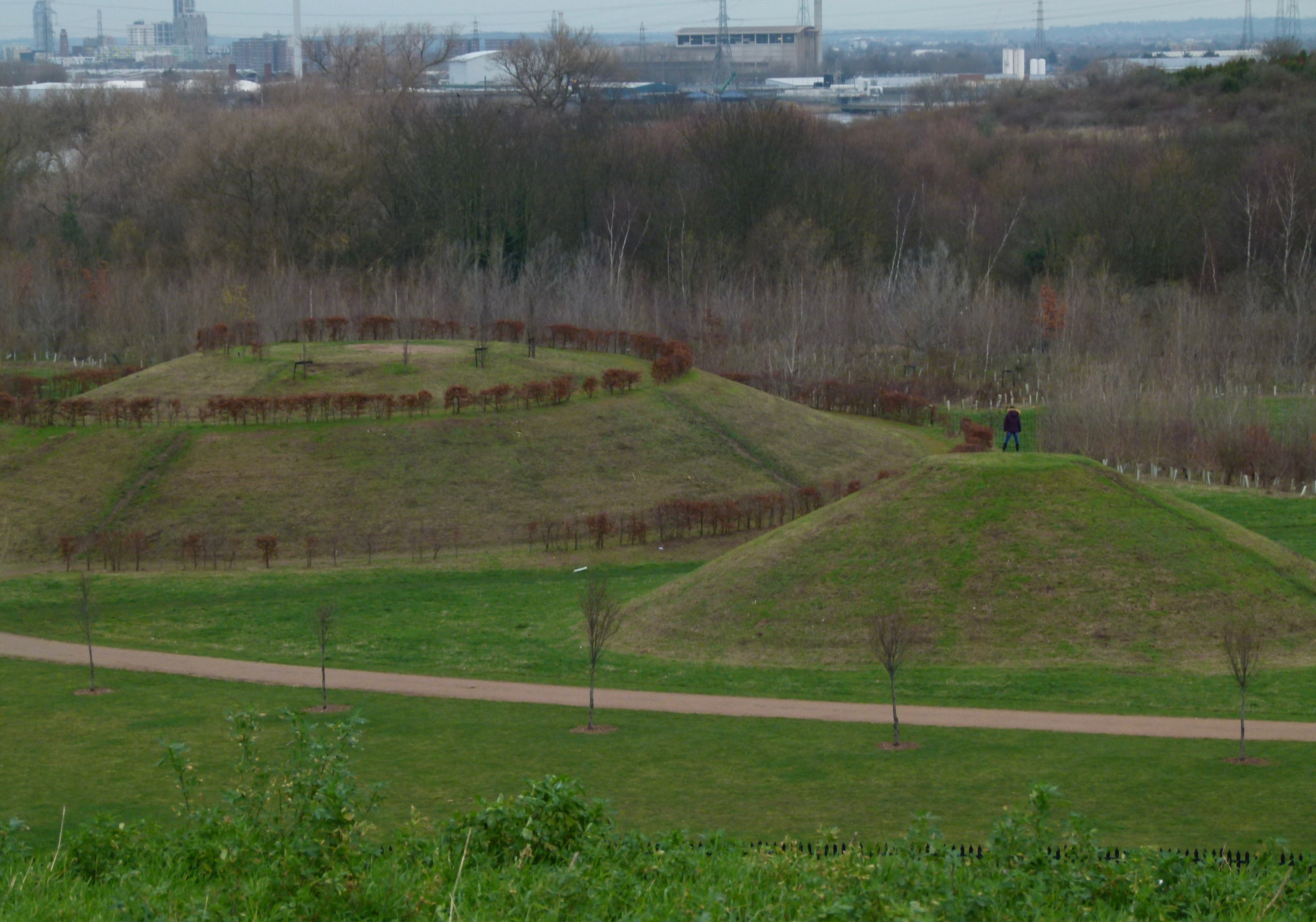 View towards Gallions Reach Park from Gallions Hill, a 20 m man-made hill in Thamesmead West, Royal Borough of Greenwich, London, UK.